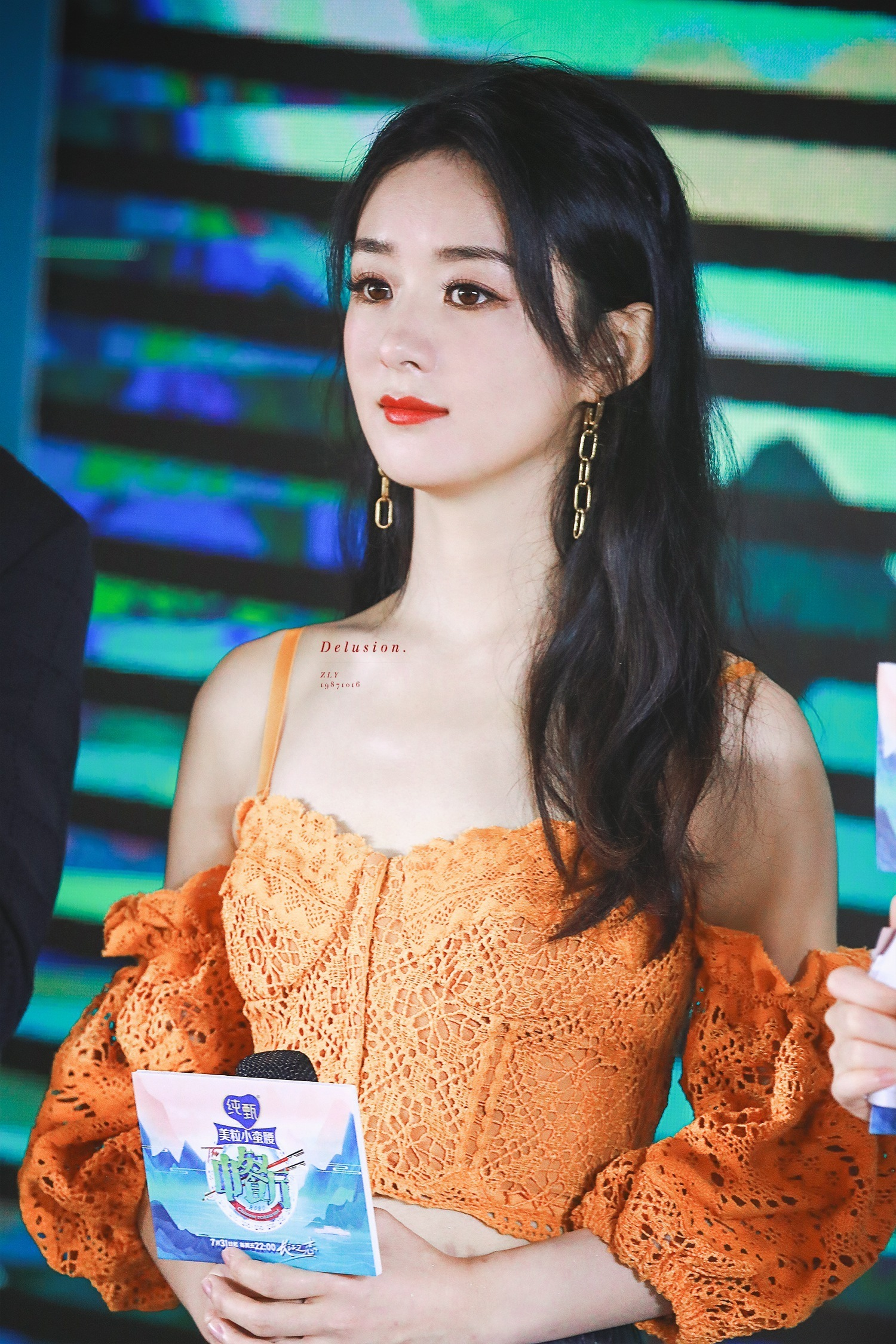 Zhao Liying at Chinese Restaurant S4 Announcement Conference, 31 July 2020